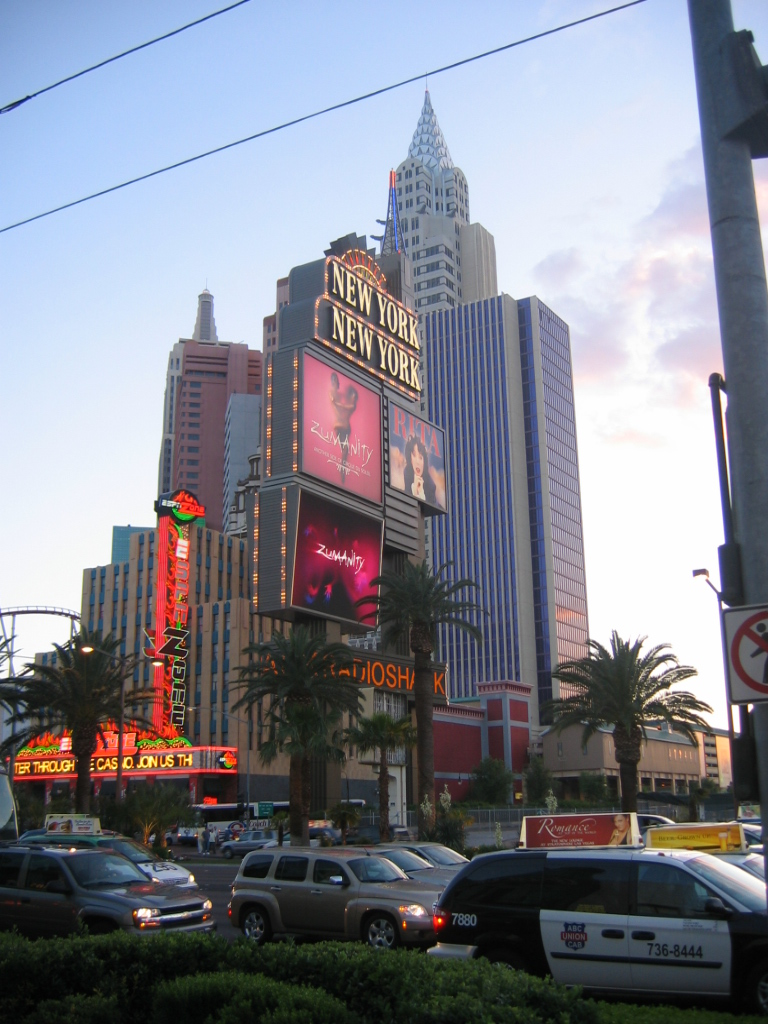 Description : New York hotel and casino, Las Vegas, Nevada (USA) Author : own work, Urban ; I took this picture on April 2006